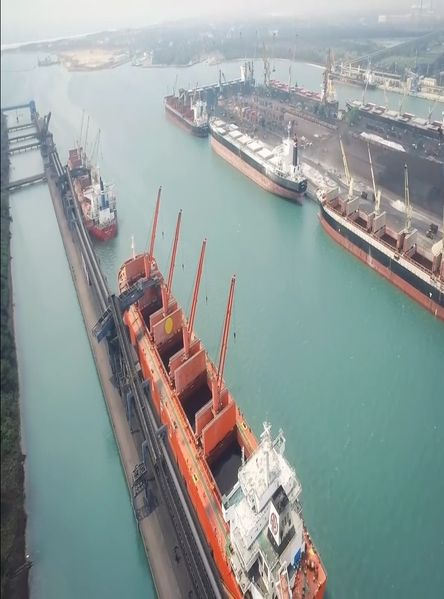 Paradip Port Trust is a government owned port and a major port in India